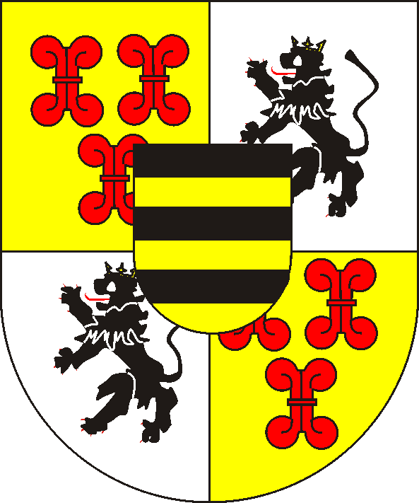 coats of arms of the county of Culemborg (NL)